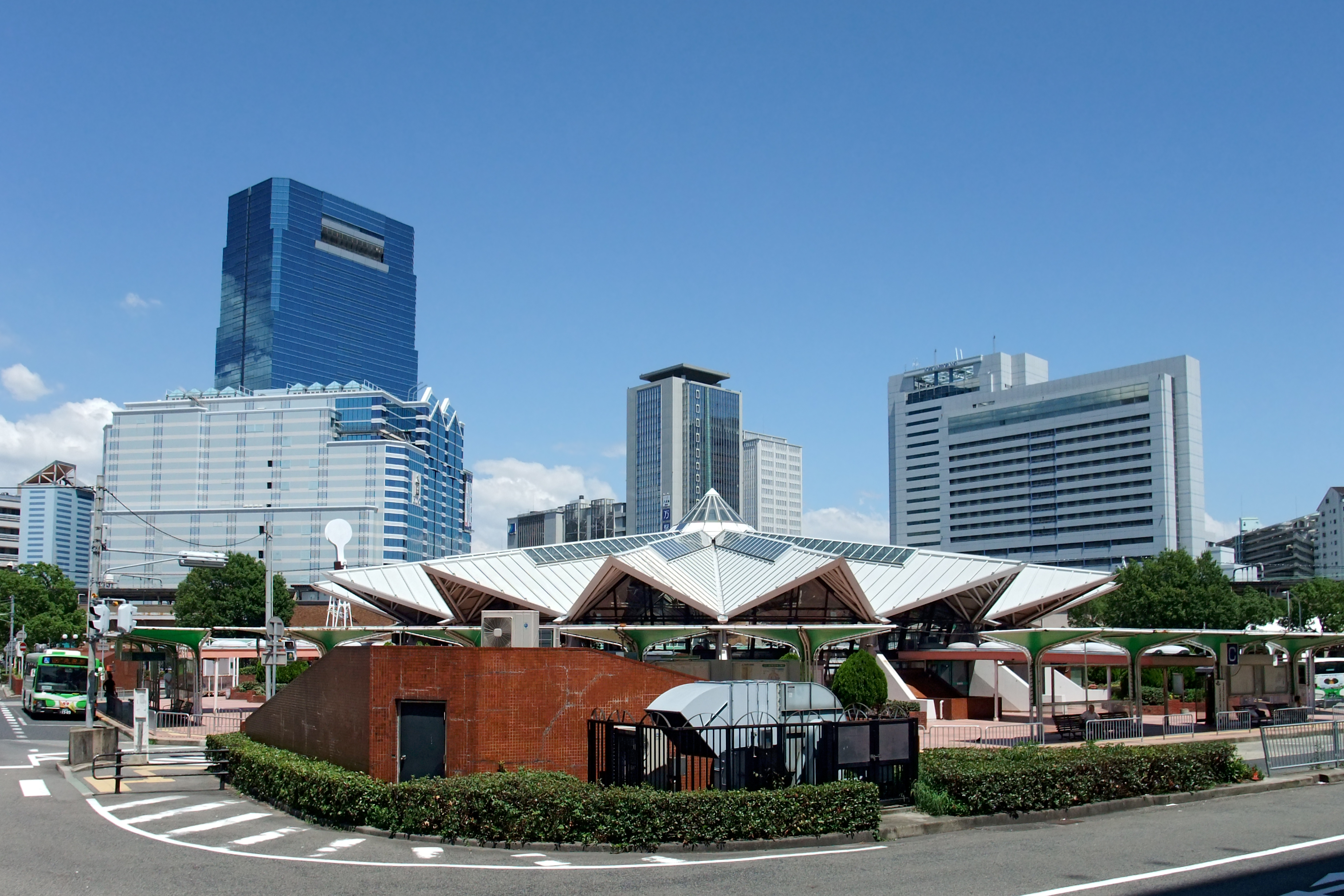 DUO KOBE in front of JR Kobe Station, Kobe, Hyogo prefecture, Japan